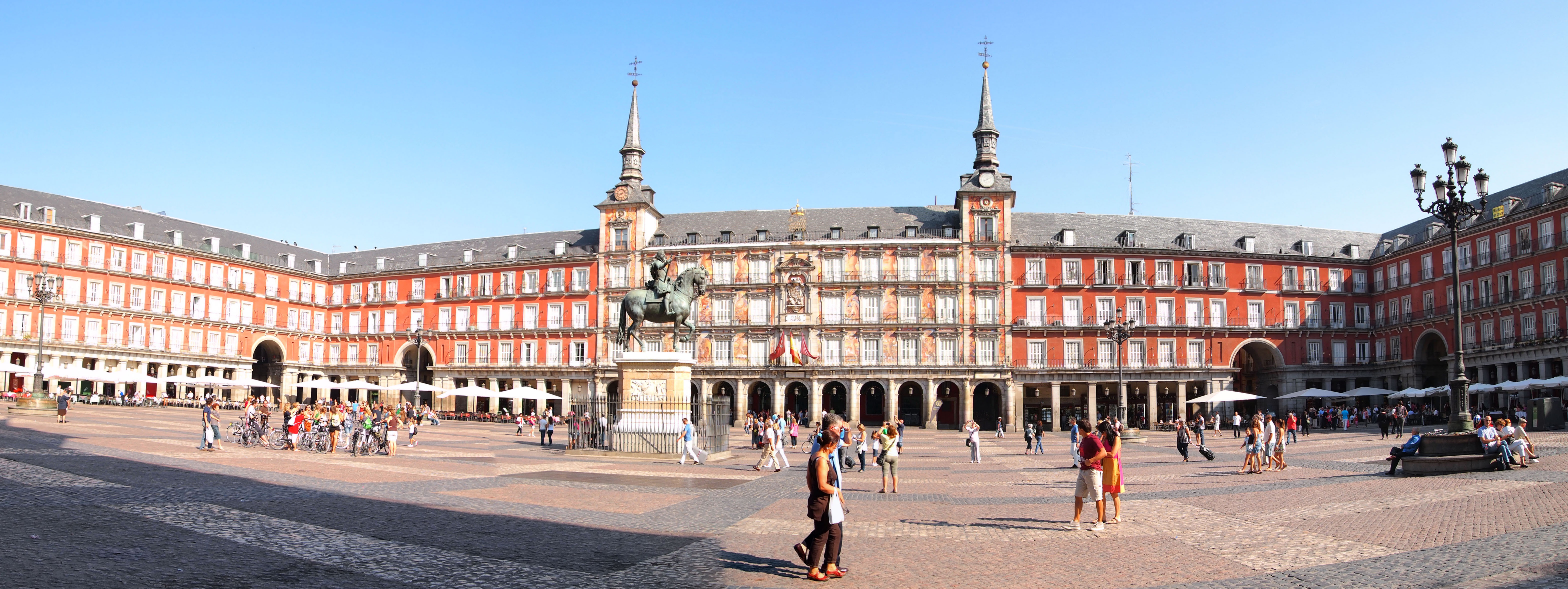 Panoramic view in Plaza Mayor, Madrid.